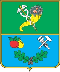 Coat of Arms of Lubotin, Kharkov oblast Ukraine